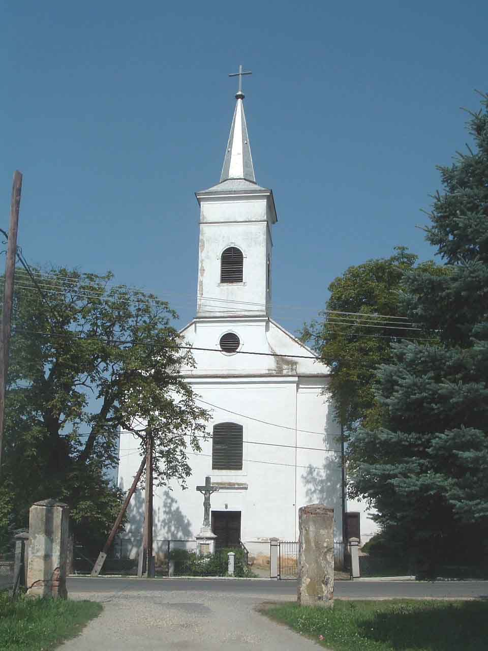 The church in Kisunyom, Hungary. Szent Mihály római katolikus templom